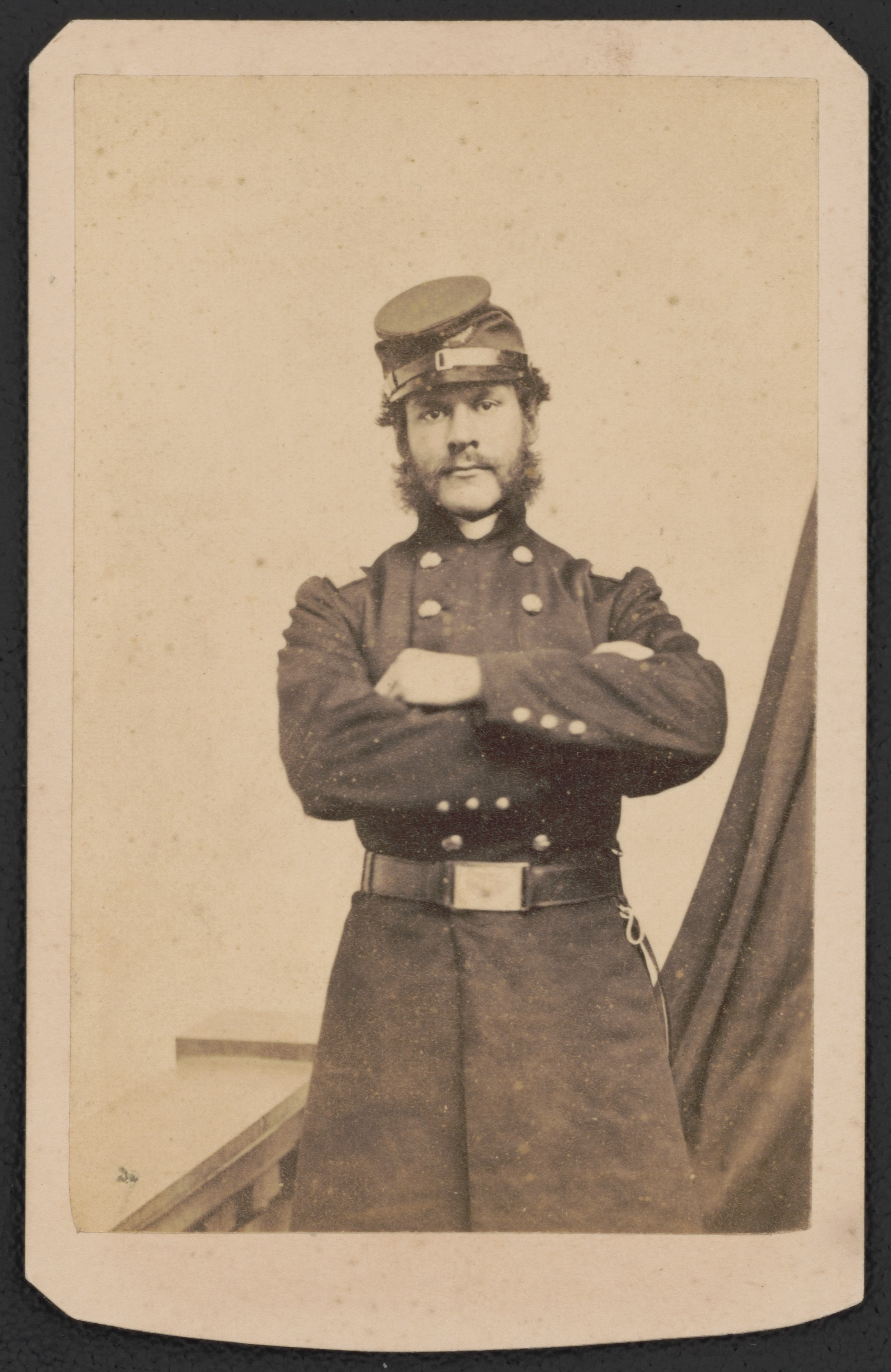 Title: Brigadier General Thomas Greely Stevenson of 24th Massachusetts Infantry Regiment and General Staff U.S. Volunteers Infantry Regiment in uniform] / Photographed by Black Abstract/medium: 1 photograph : albumen print on card mount ; mount 11 x 6 cm (carte de visite format)